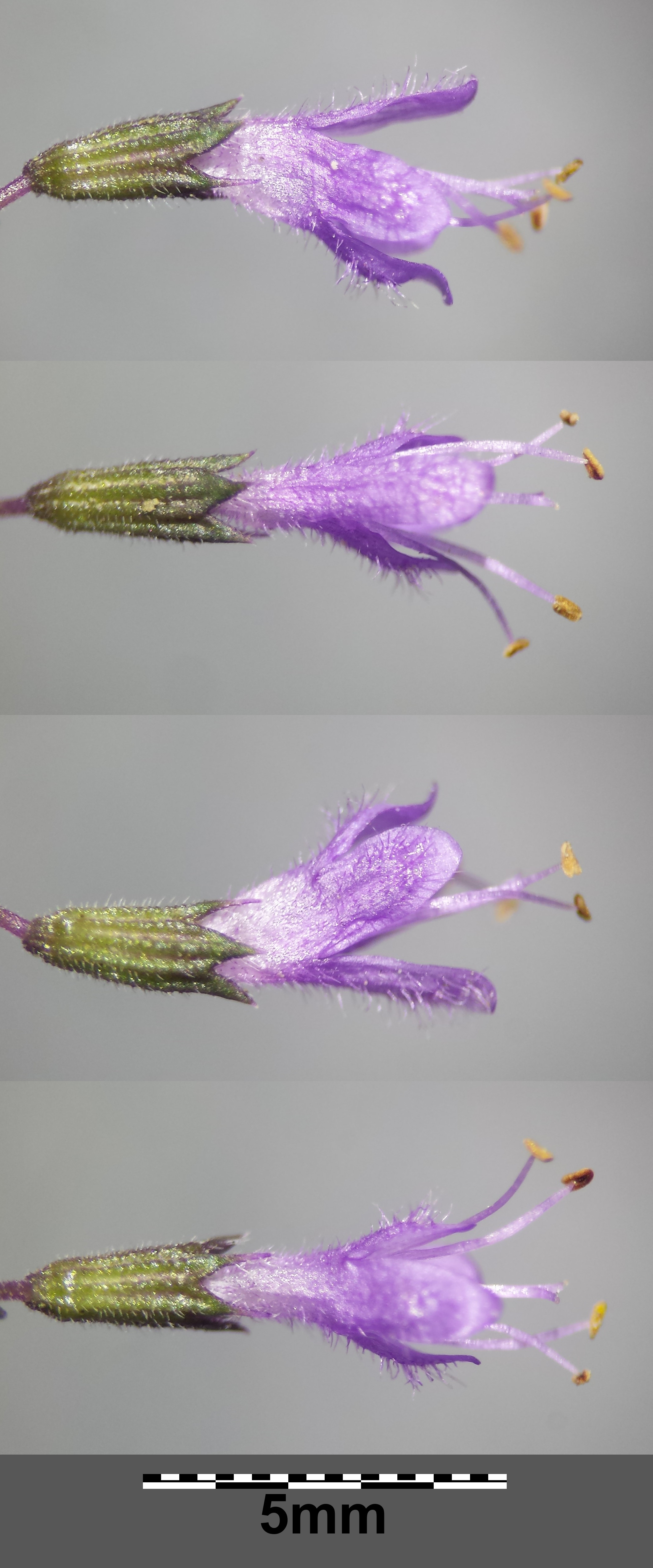 Flower Taxonym: Mentha pulegium ss Fischer et al. EfÖLS 2008 ISBN 978-3-85474-187-9 Location: pond near Michelstetten, district Mistelbach, Lower Austria - ca. 250 m a.s.l. Habitat: shore of a pond